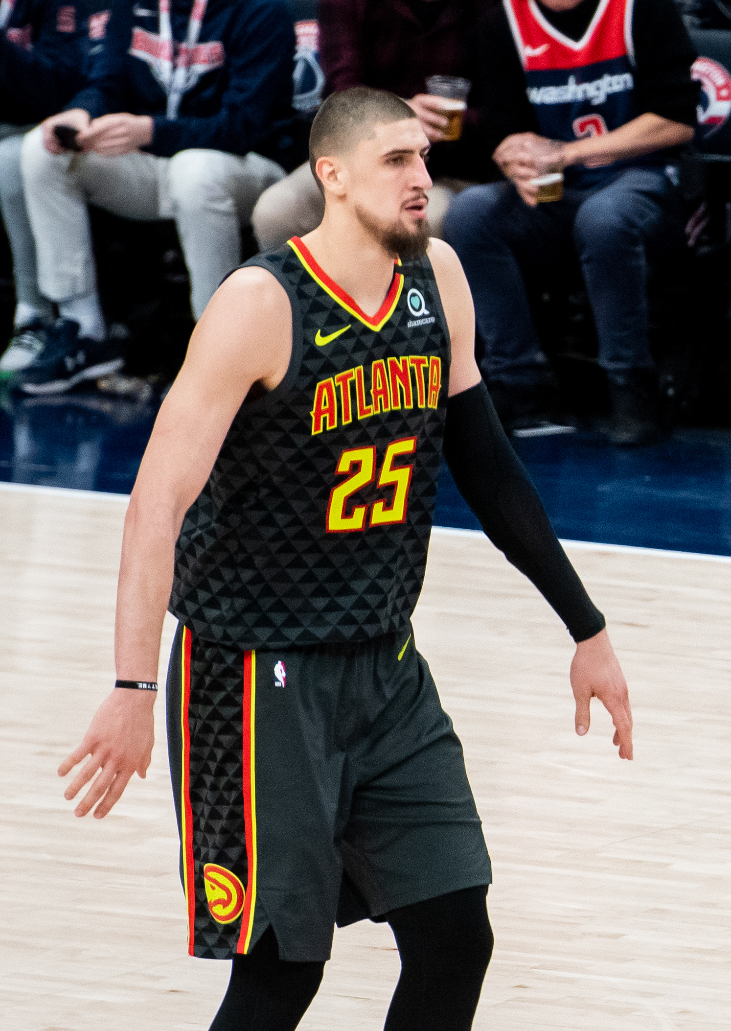 Alex Len and Kevin Huerter of Atlanta